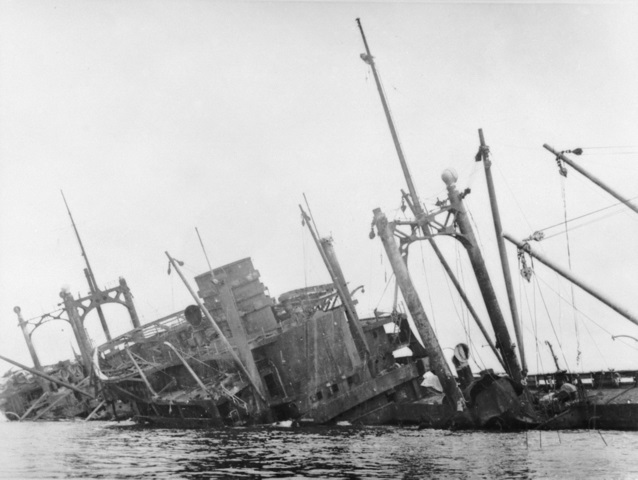 1943-05-19. NEW GUINEA. GONA. THIS WRECKED JAPANESE SHIP "AYATOSAN MARU", SUNK BY ALLIED AIRCRAFT DURING THE BATTLE OF GONA. IT IS NOW USED FOR TARGET PRACTICE BY ALLIED FORCES AT GONA BEACH. (NEGATIVE BY N. BROWN).